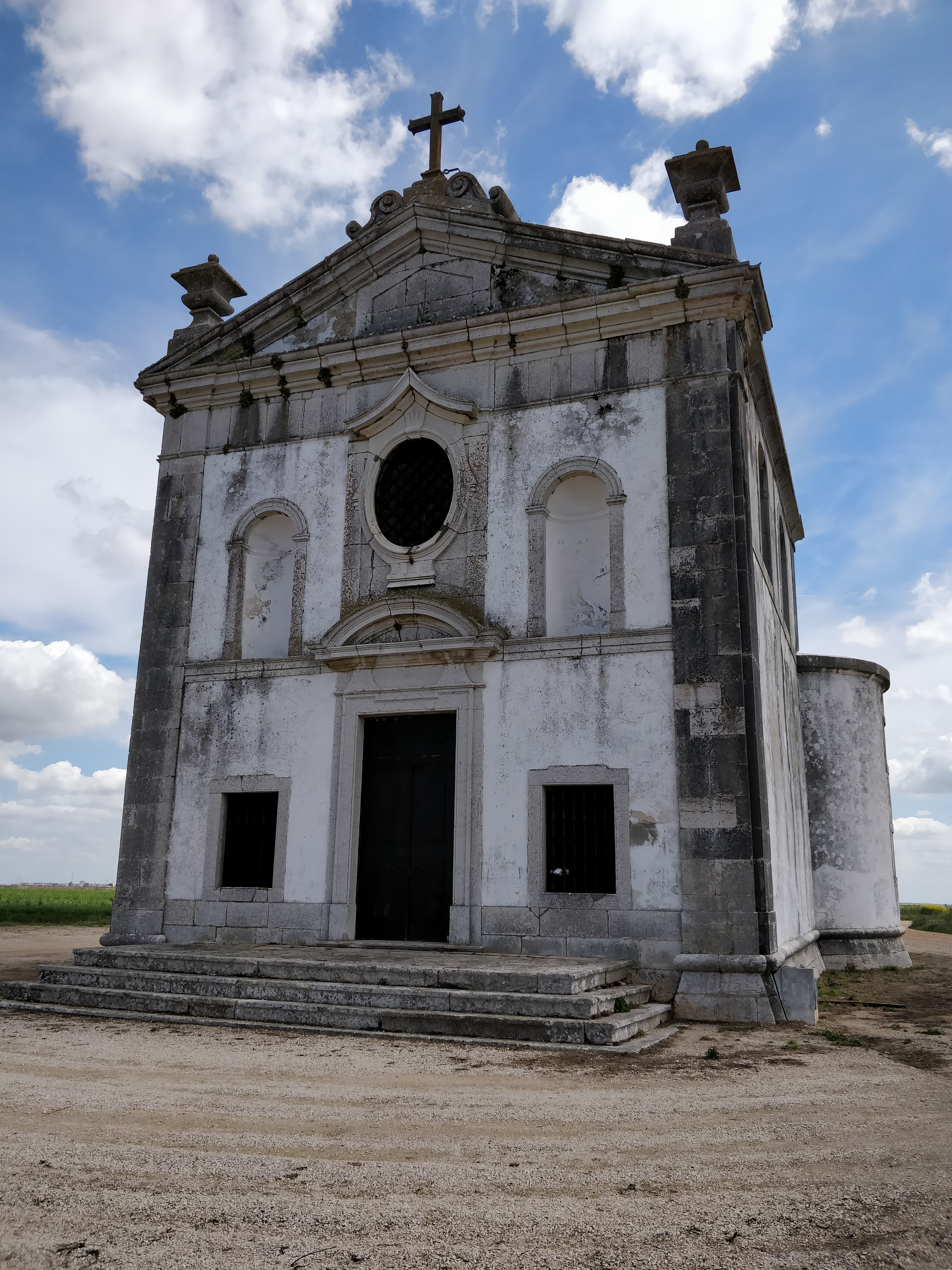 Hermitage of Nossa Senhora de Alcamé north of Lisbon, Portugal n the bank of the River Tagus